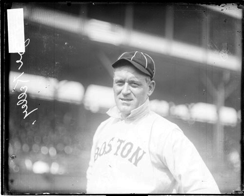 [Baseball player Joe Kelley, Boston, standing on the field at West Side Grounds]. Chicago Daily News, Inc., photographer. CREATED/PUBLISHED 1908. SUMMARY Informal half-length portrait of baseball player Joe Kelley of the National League's Boston baseball team, standing on the field at West Side Grounds, located between West Polk Street, South Wolcott Avenue (formerly Lincoln Street), West Taylor Street, and South Wood Street in the Near West Side community area of Chicago, Illinois. NOTES This photonegative taken by a Chicago Daily News photographer may have been published in the newspaper. Cite as: SDN-053886, Chicago Daily News negatives collection, Chicago History Museum. SUBJECTS Baseball players--1900-1909. Chicago (Ill.)--1900-1909. Dry plate negatives. Gelatin dry plate negatives. United States--Illinois--Cook County--Chicago. MEDIUM 1 negative : b&w, glass ; 4 x 5 in. REPRODUCTION NUMBER SDN-053886 REPOSITORY Chicago History Museum, 1601 North Clark Street, Chicago, IL 60614-6038. DIGITAL ID (original negative) ichicdn s053886